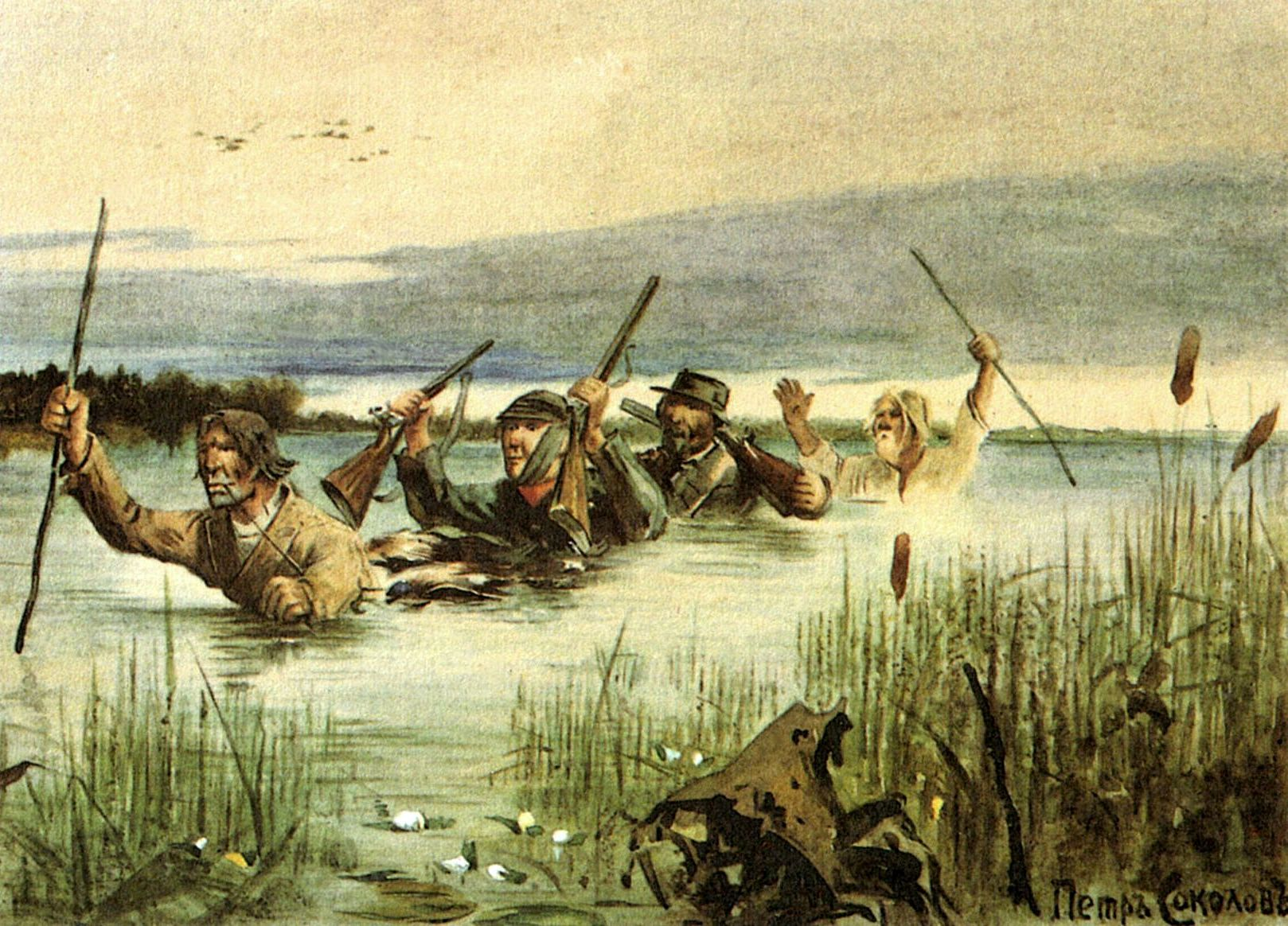 The hunters whose boat have capsized are struggling out of a pond: “At last, to our indescribable delight, Yermolaï returned. ‘Well?’ ‘I have been to the bank; I have found the ford... Let us go.’ We wanted to set off at once; but he first brought some string out of his pocket out of the water, tied the slaughtered ducks together by their legs, took both ends in his teeth, and moved slowly forward; Vladimir came behind him, and I behind Vladimir, and Sutchok brought up the rear. ” —Ivan Turgenev. Lgov (translation by Constance Garnett)